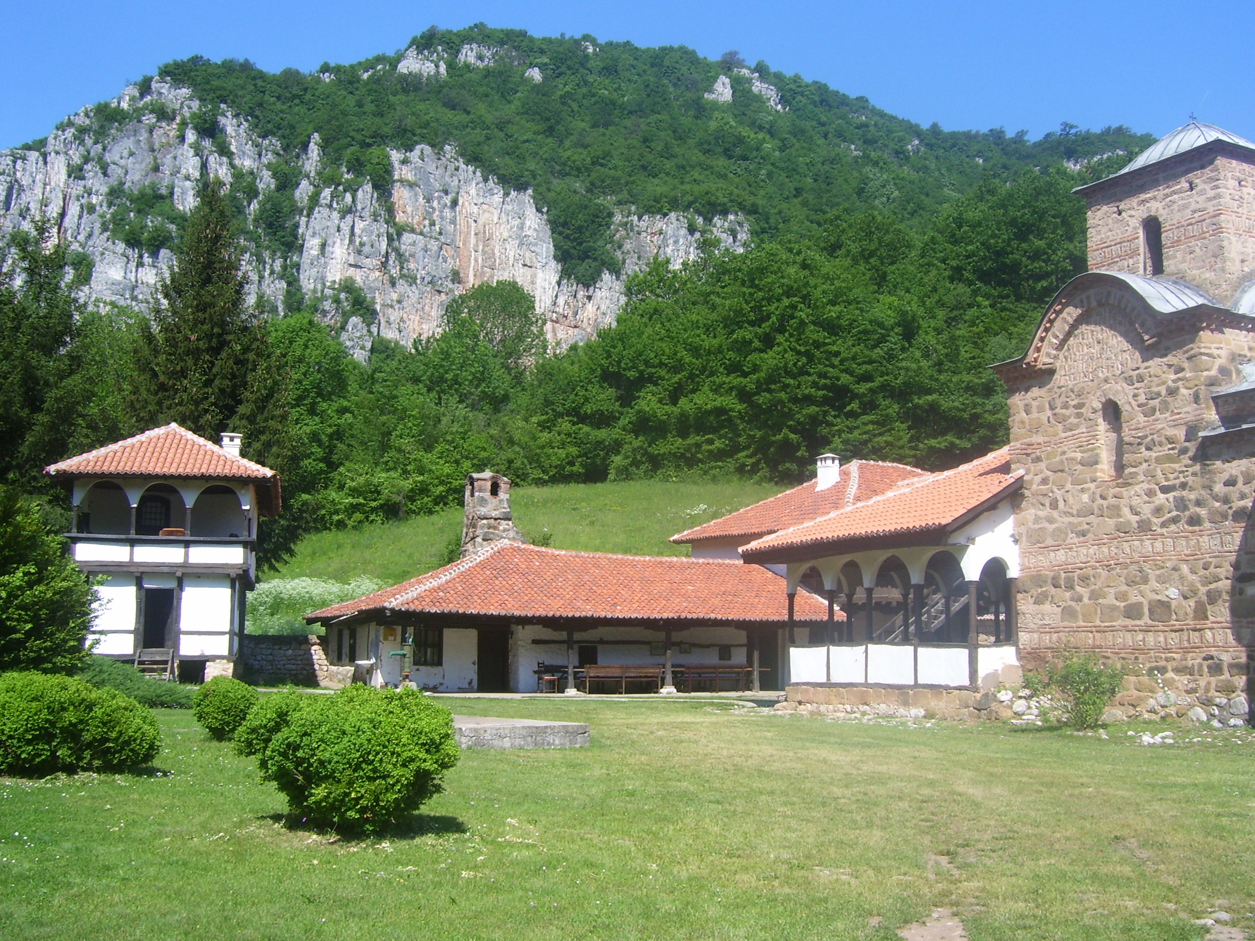 Poganovo monastery.